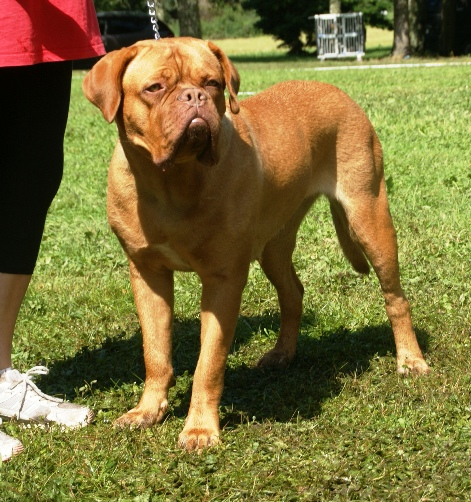 A French Mastiff/ Dogue de Bordeaux female.